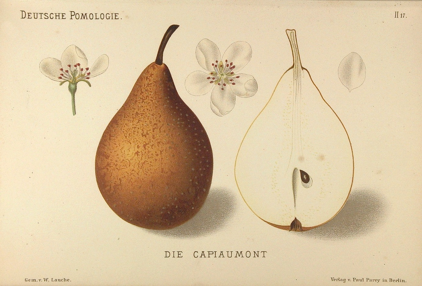 Page 17 from Deutsche Pomologie — Birnen, by Wilhelm Lauche, 1882. Published by Deutsche Pomologen-Vereins (German Pomological Society). Part of a series from the same book. The others can be found in Category:Deutsche Pomologie - Birnen Depicted pear cultivar: Die Capiaumont